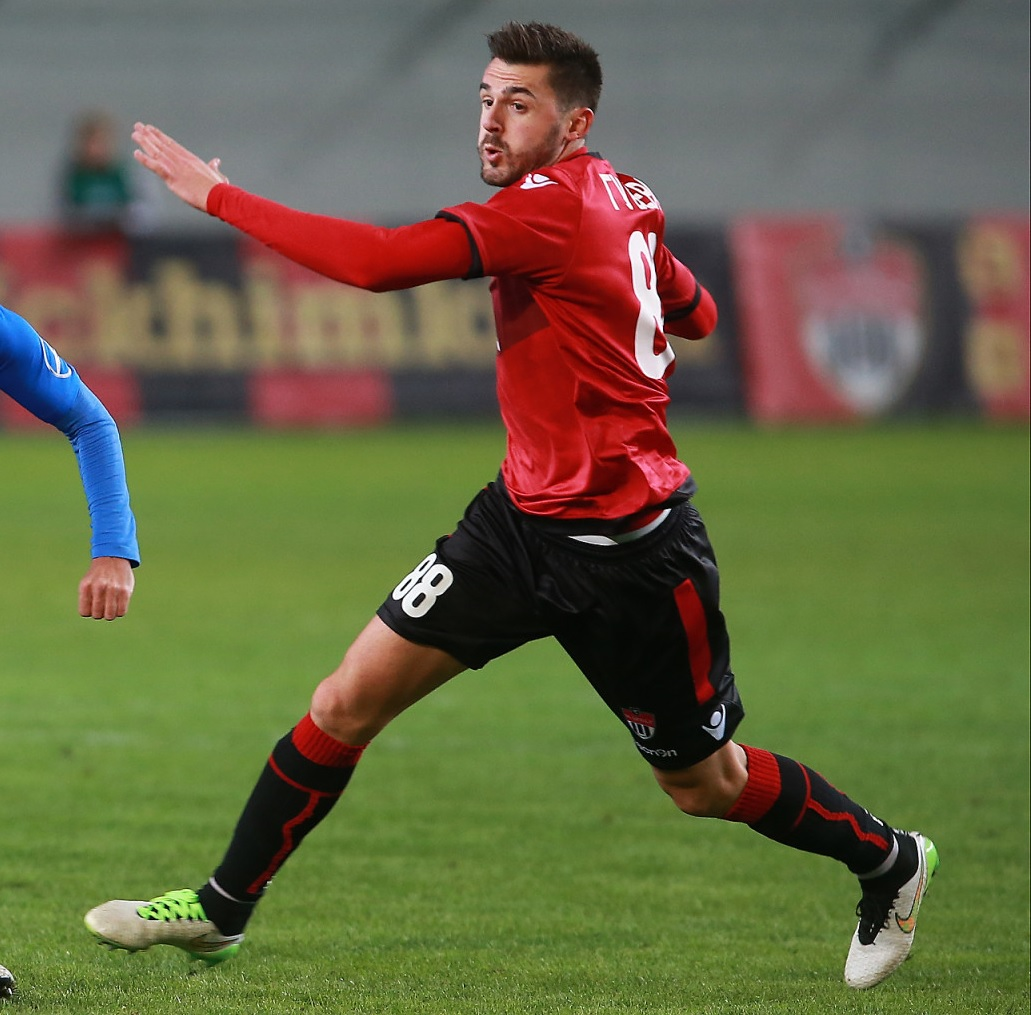 Ivica Guberac in action for FC Khimki in a game against FC Dynamo Moscow.